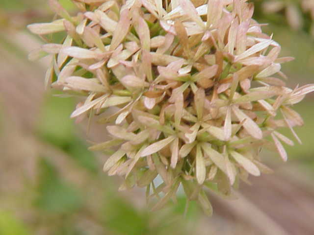 Species: Abelia chinensis Family: Caprifoliaceae Image No. 2